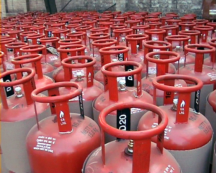 Gas cilinder